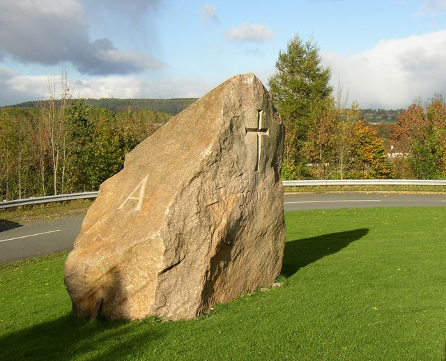 The Eden Millennium Monument at Eamont Bridge, a 50 tonne stone moved to the site in 2000.